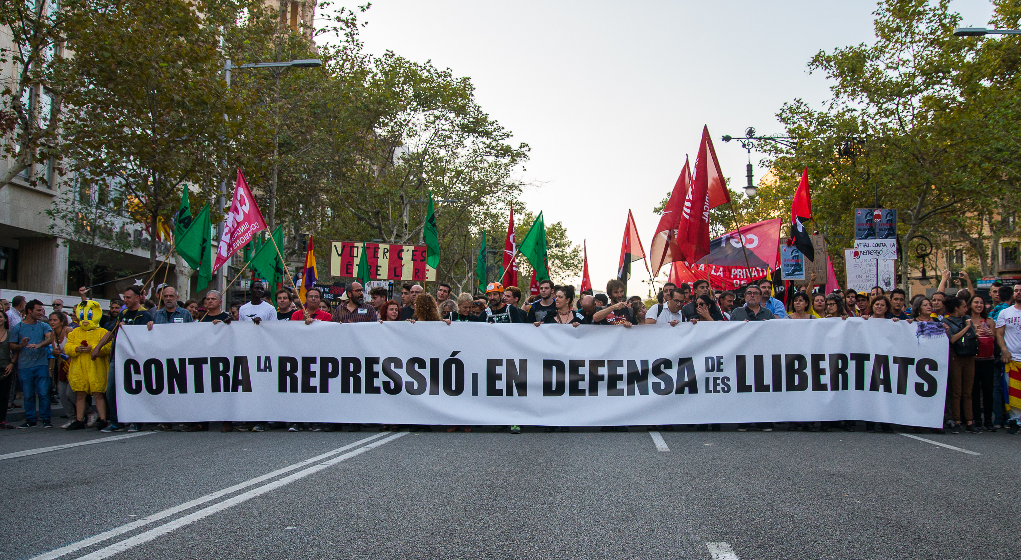 Catalan general strike of October 3, 2017 against police brutality. Protesters walking along Passeig de Gràcia, Barcelona city.